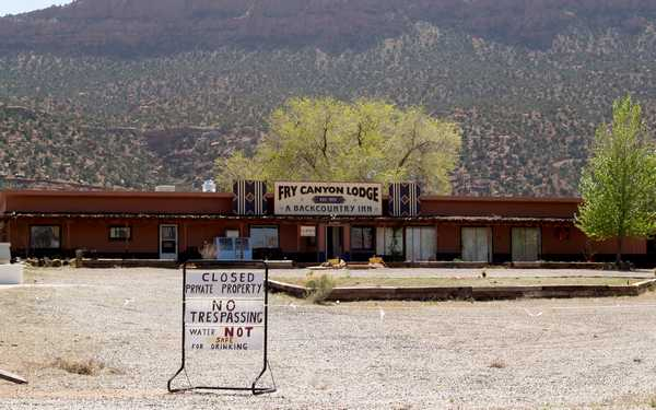 Photograph of the main structure in Fry Canyon, Utah.